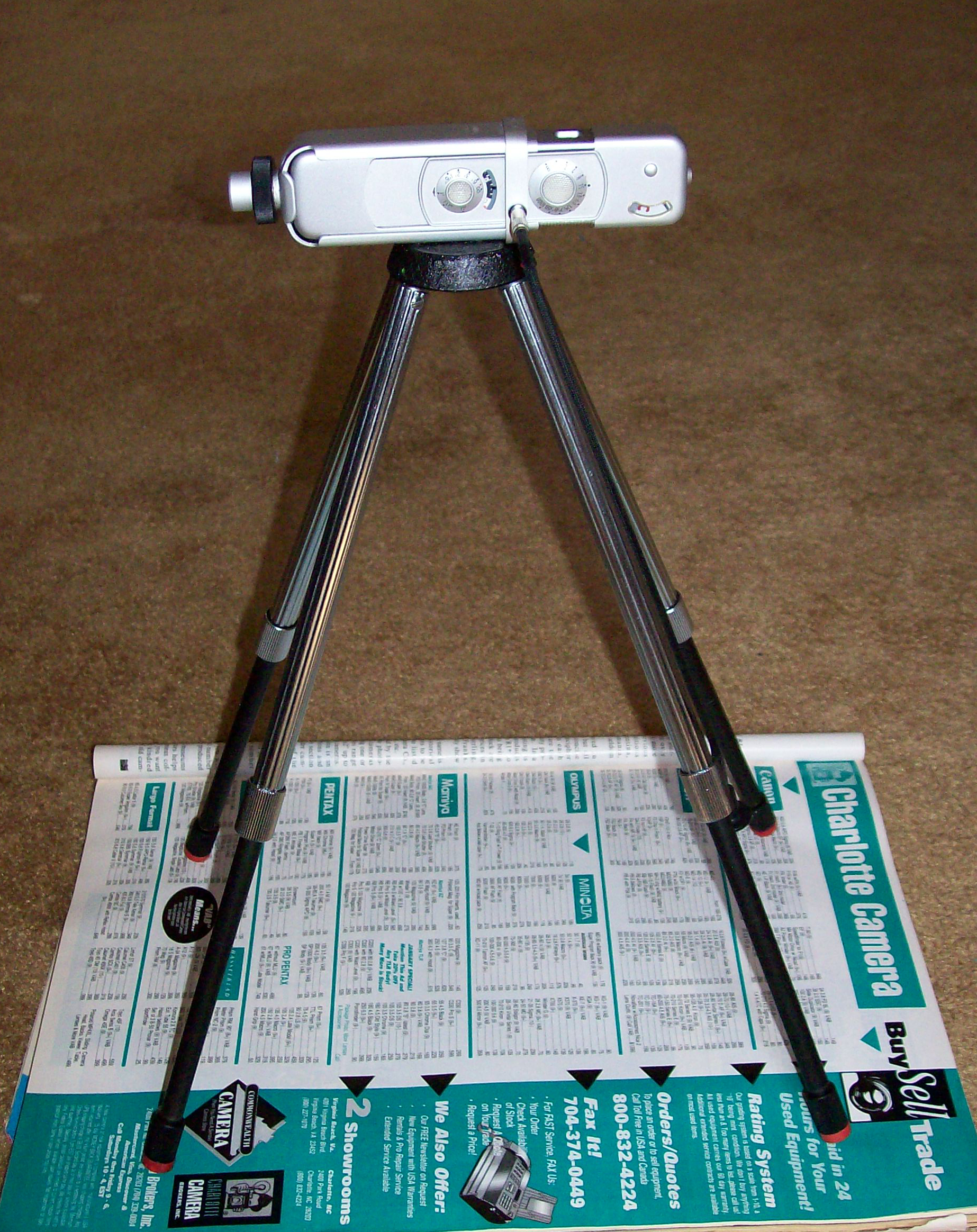 Minox copy stand at 12 inch position